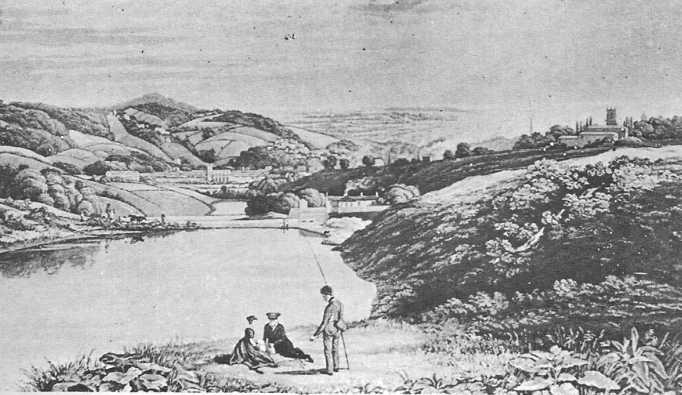 View from Crookes in 1826. The view shows two of the chain of reservoirs leading down to Upperthorpe, which can be seen in the distance.